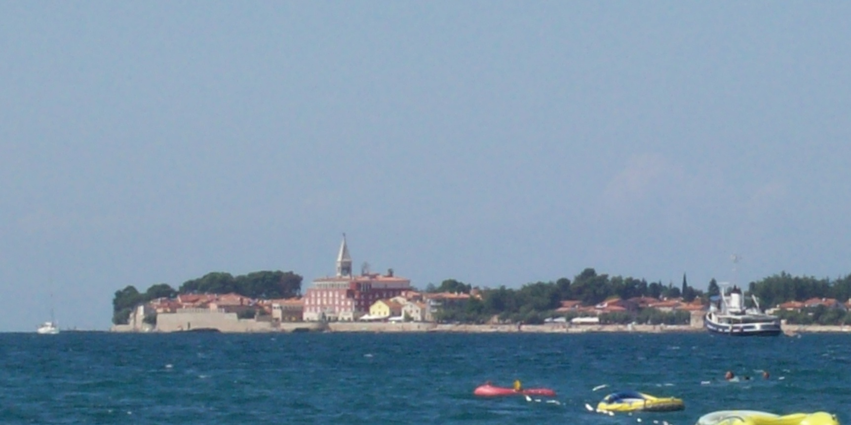 Novigrad - Croatia